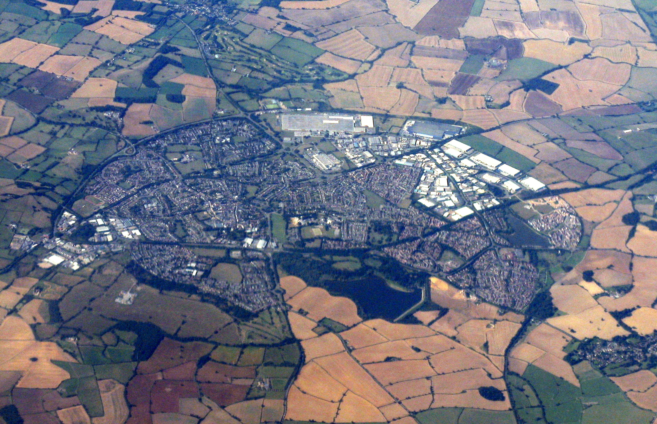 Daventry from the east With the Daventry Reservoir in the foreground.